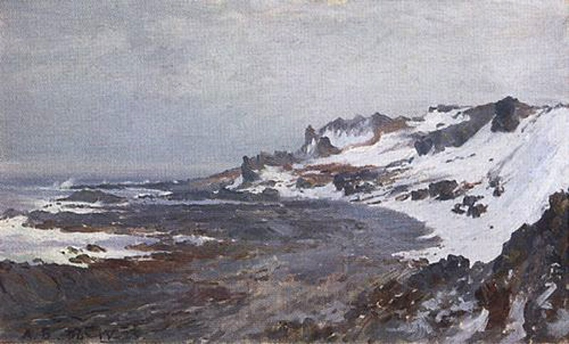 «In Kandalaksha Gulf. White Sea» by A.A. Borisov